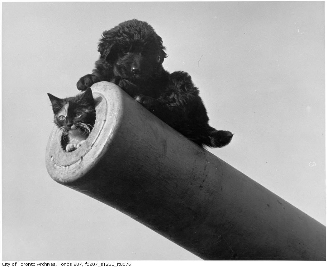 Photographer: Murison/Royal Canadian Navy 1945 City of Toronto Archives Series 1251, Item 76 This image is available from the Toronto Public LibraryThis tag does not indicate the copyright status of the attached work. A normal copyright tag is still required. See Commons:Licensing. English | français | +/−